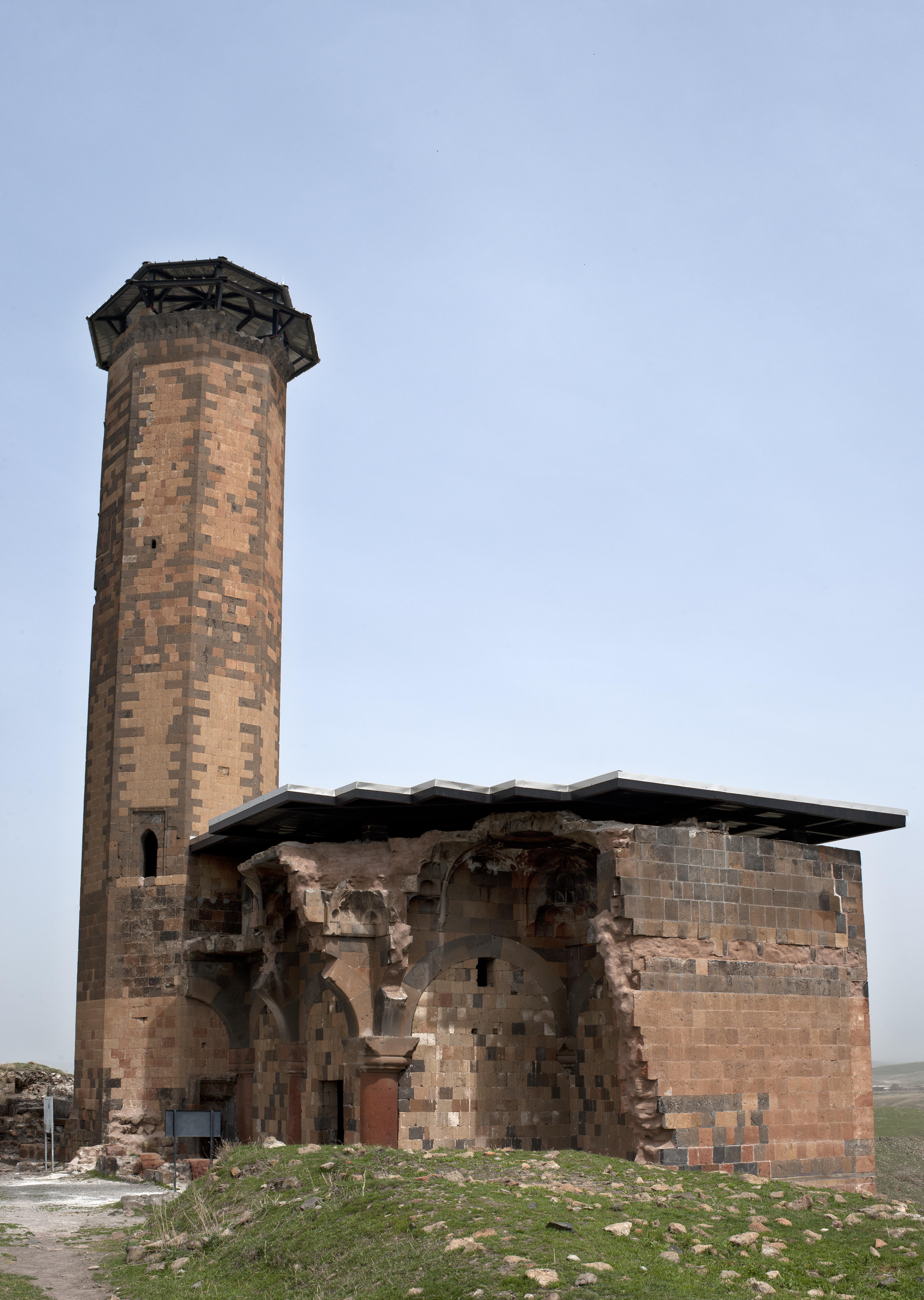 The ruins of Manucehr Mosque, an 11th century mosque built among the ruins of Ani.